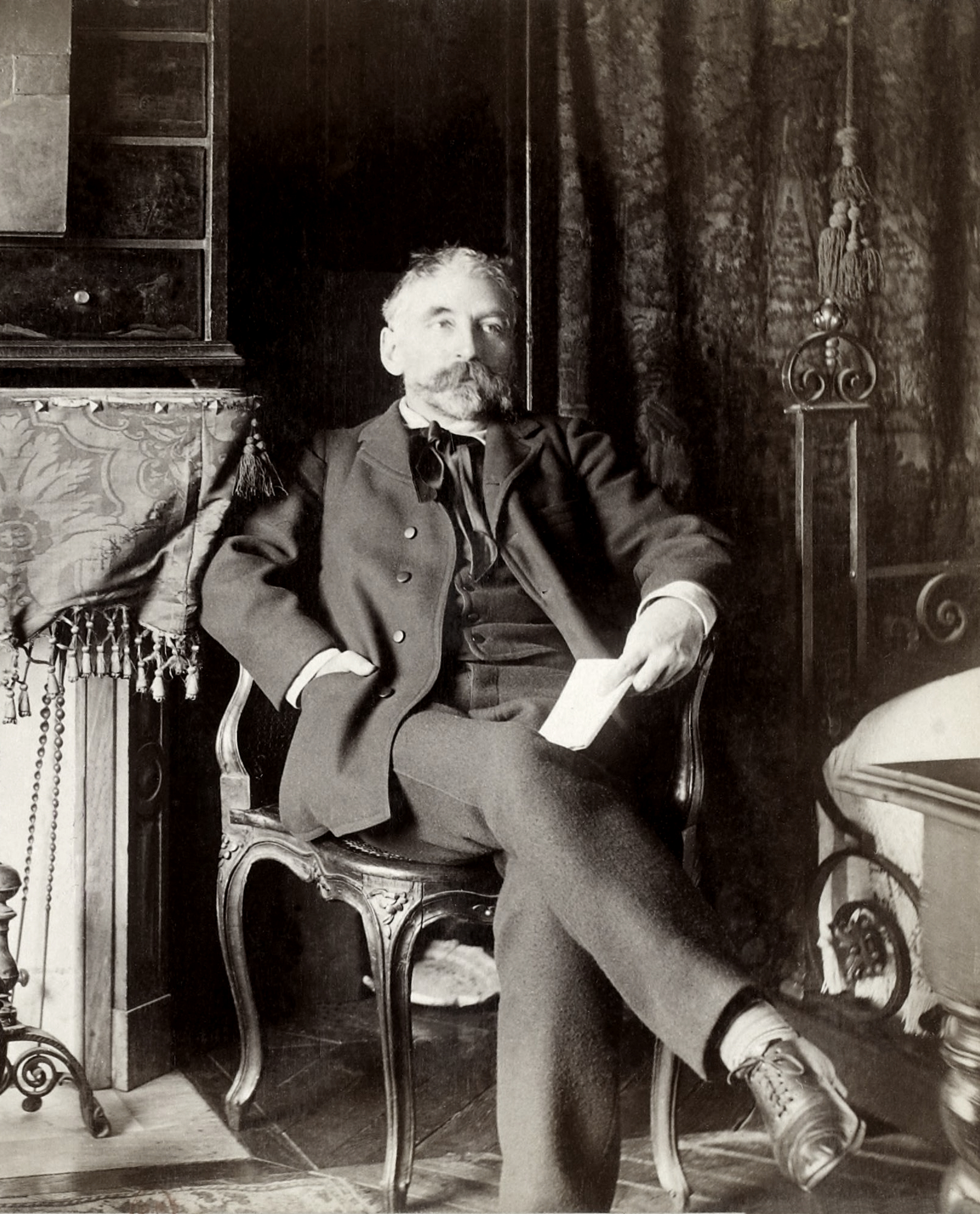 Stéphane Mallarmé (1842 - 1898), french poet.